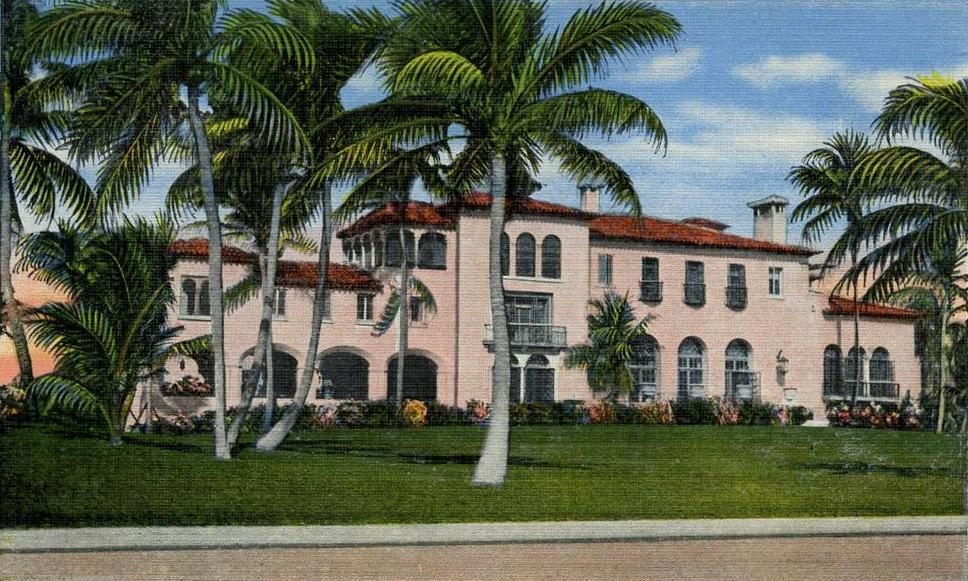 El Mirasol, Palm Beach, Florida. Designed by architect Addison Mizner, the winter home of Edward Townsend Stotesbury was completed in 1919. Razed in the 1950s, the 37-room mansion's fittings and furnishings were sold at auction, and its 42 acres (17 hectares) were redeveloped as a 14 lot subdivision.